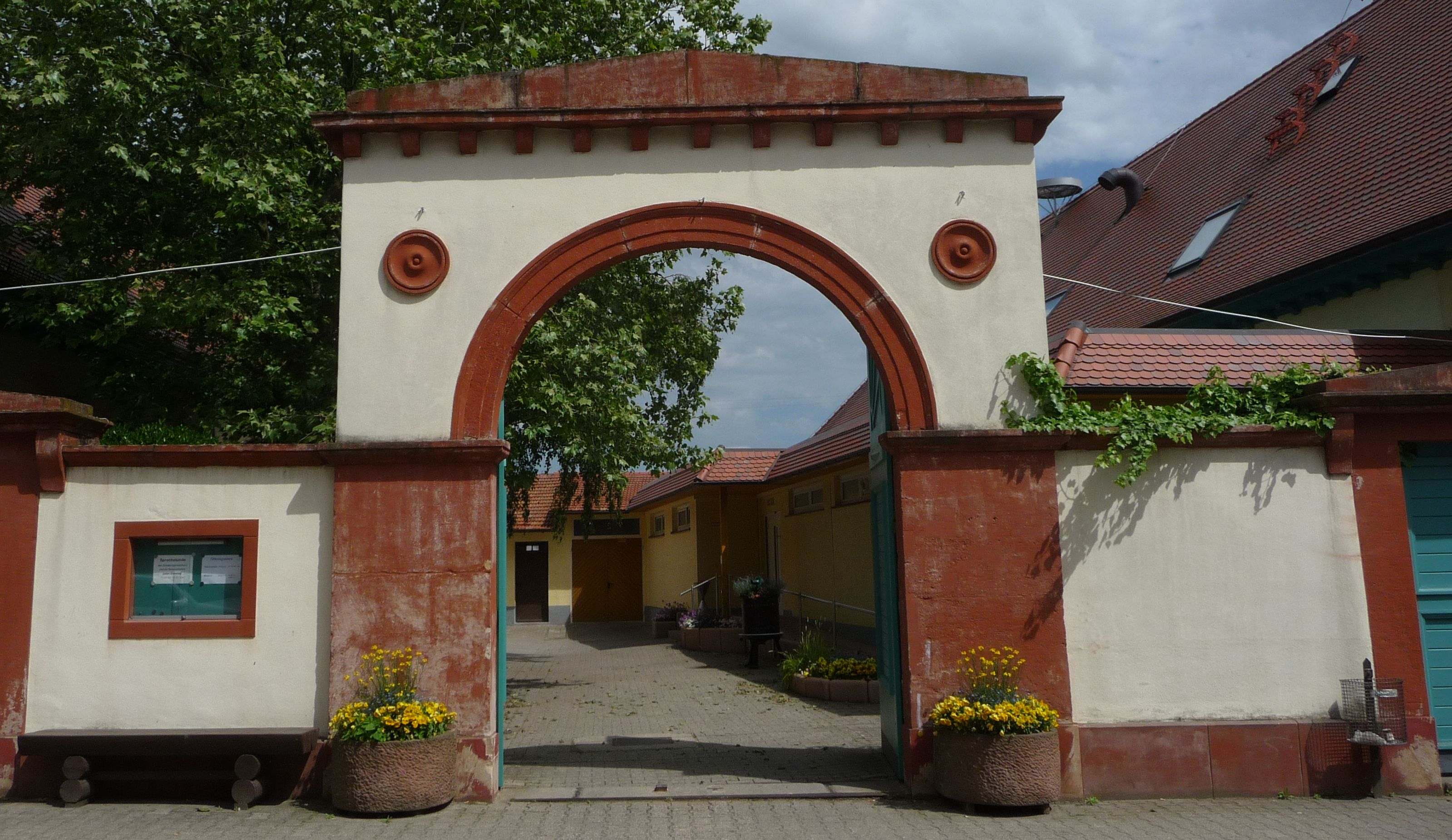 Großniedesheim, Germany